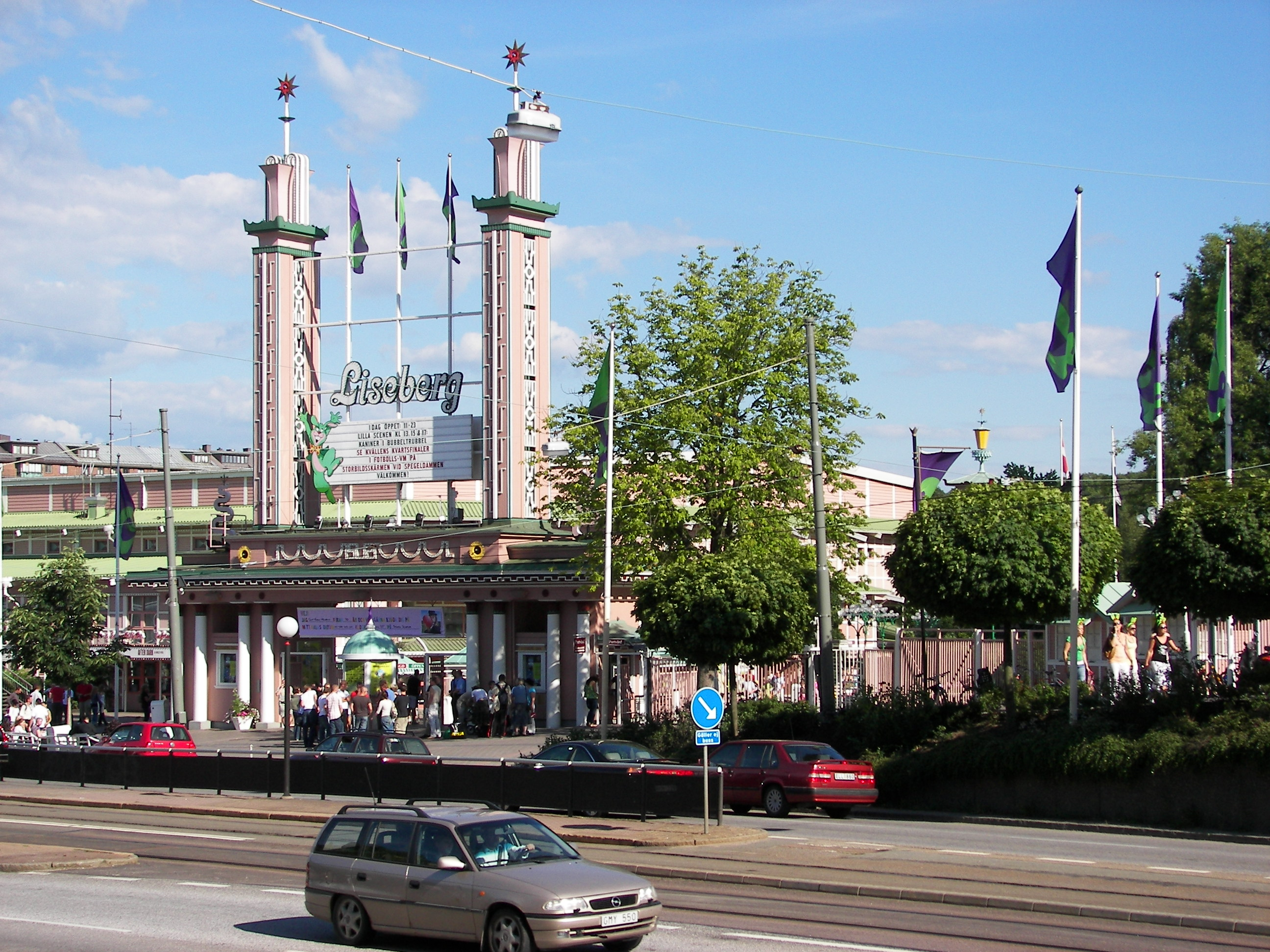 Entrance to Liseberg in Göteborg, Sweden